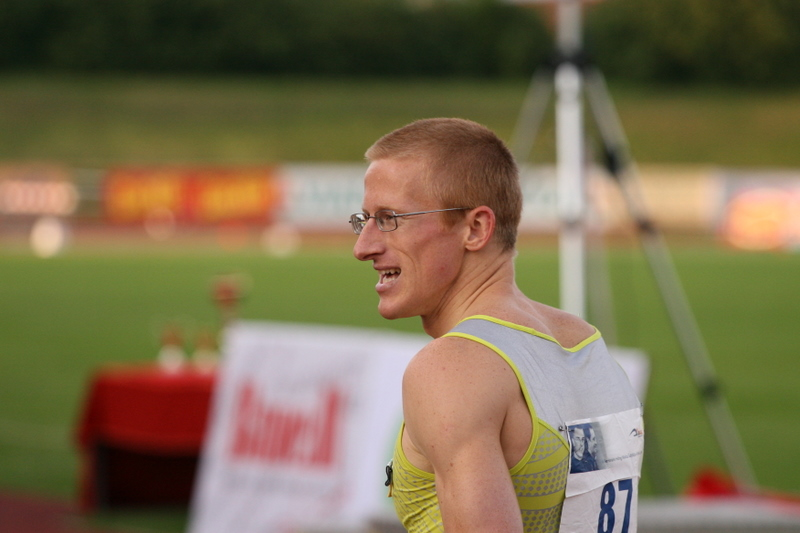 Matic Osovnikar in 2007